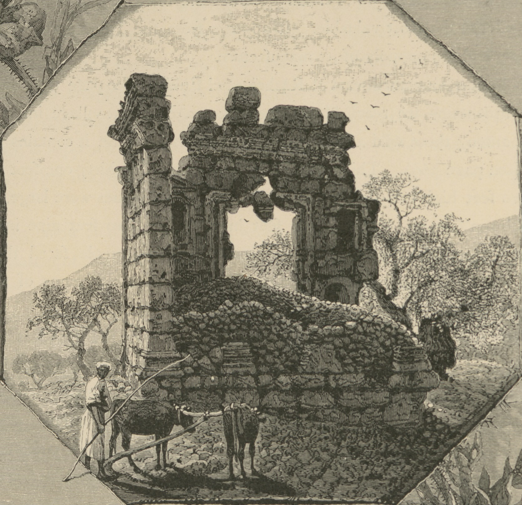 The ruins of the temple at Hebbâriyeh. Showing the eastern portal, which faced Mount Hermon, exactly opposite the valley of Shib'a